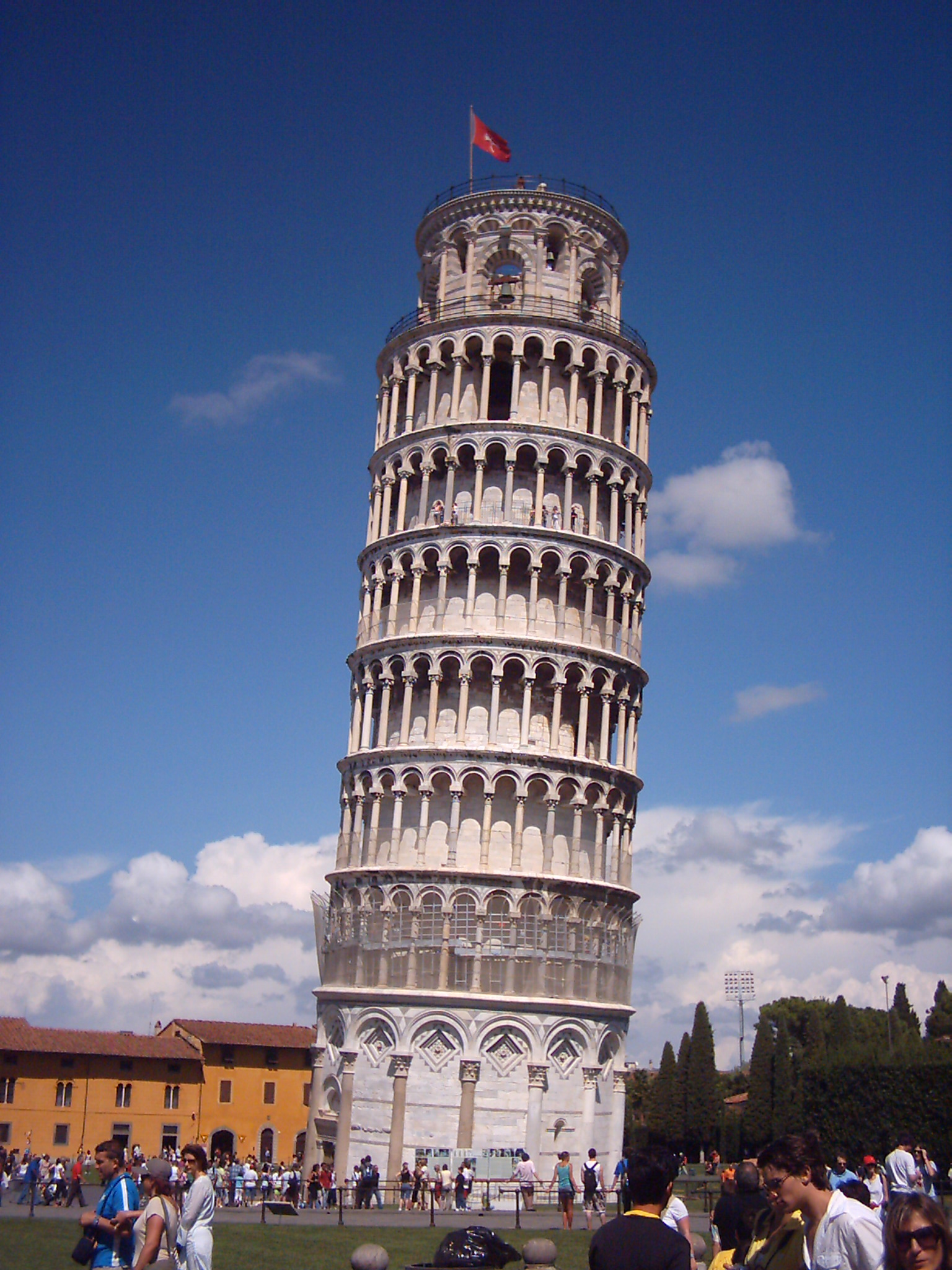 Leaning Tower of Pisa.